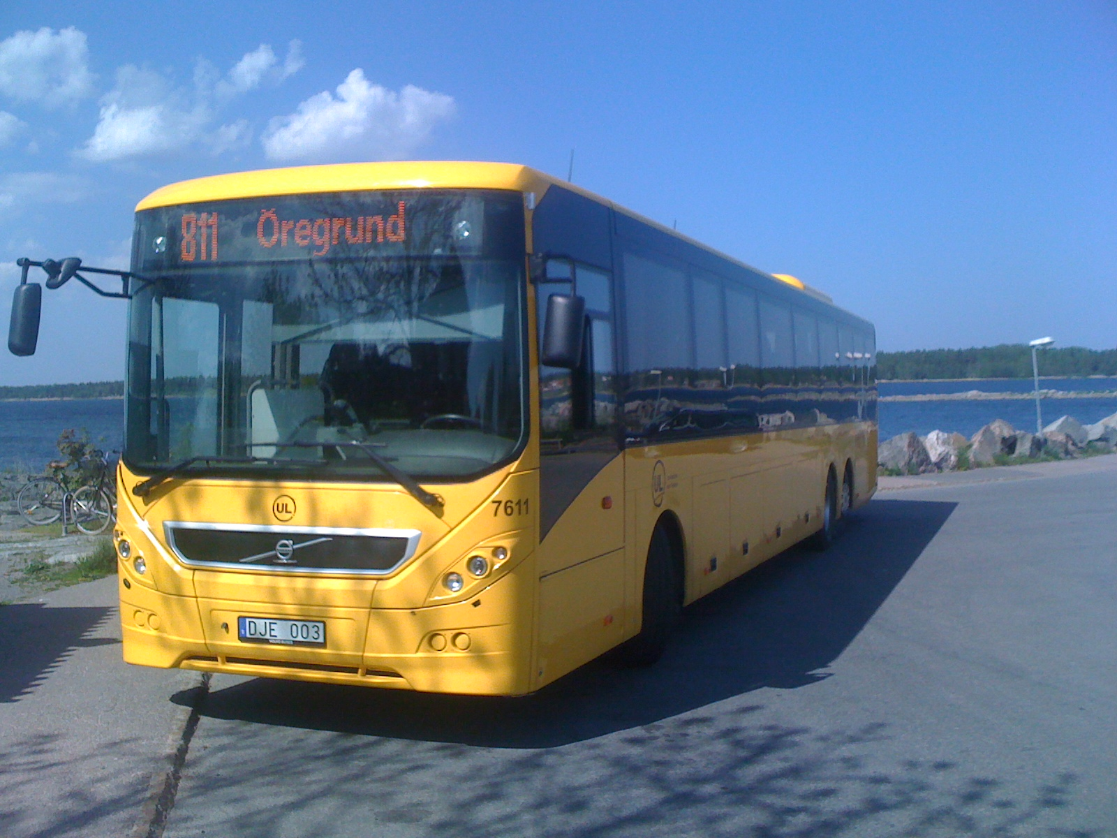 A Volvo 8900 bus in Öregrund, Sweden.